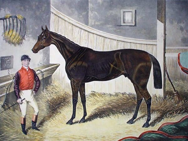 Pretender, winner of the 1869 Epsom Derby. Etching by unknown artist. circa 1869.